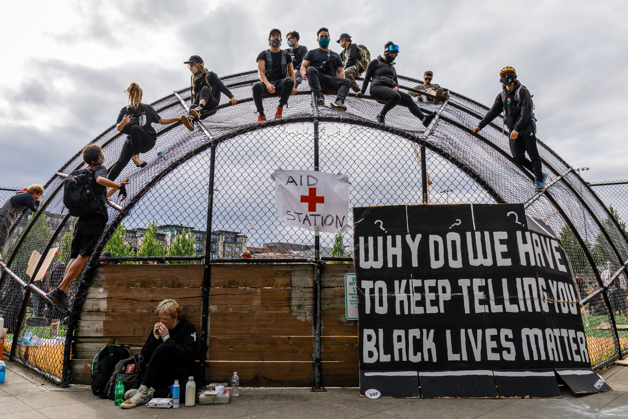 Protestors engaged in a standoff with SPD at Cal Anderson Park use the backstop as an aid station as well as a higher ground. Taken during the George Floyd protests in Seattle, WA.